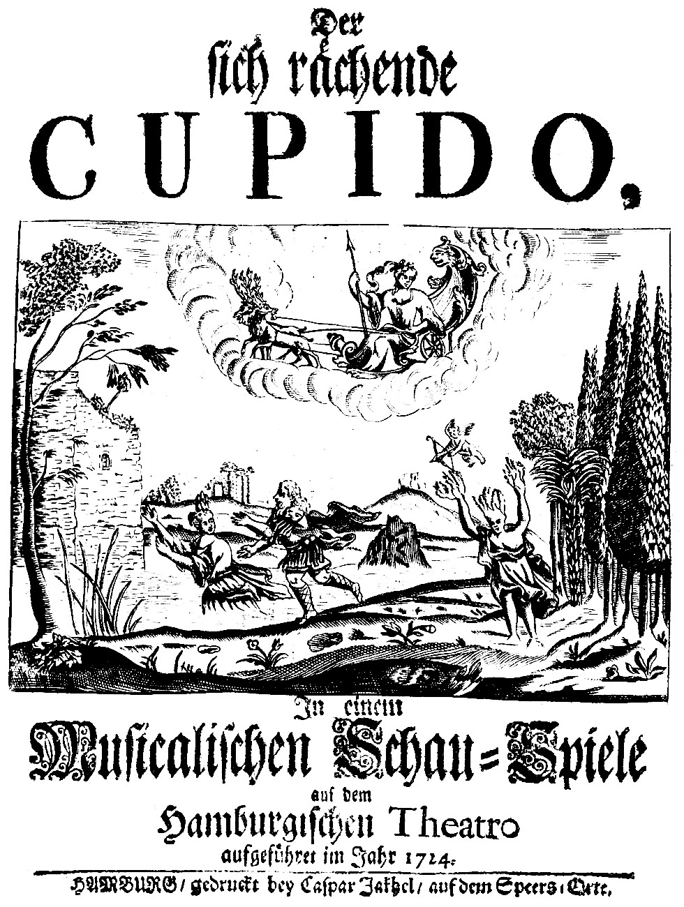 Reinhard Keiser - Der sich rächende Cupido - titlepage of the libretto from 1724